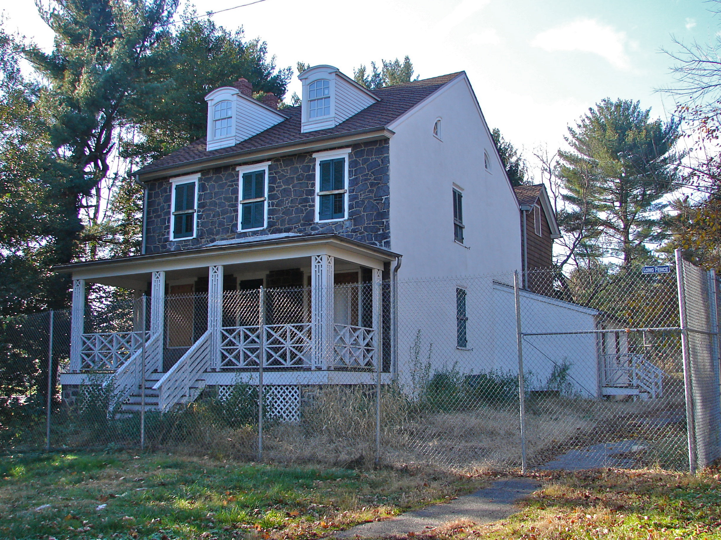 Ivyside Farm on the NRHP since January 4, 1982. At 1301 Naaman's Rd., in Claymont, Delaware (a bit farther north and it would be Pennsylvania)